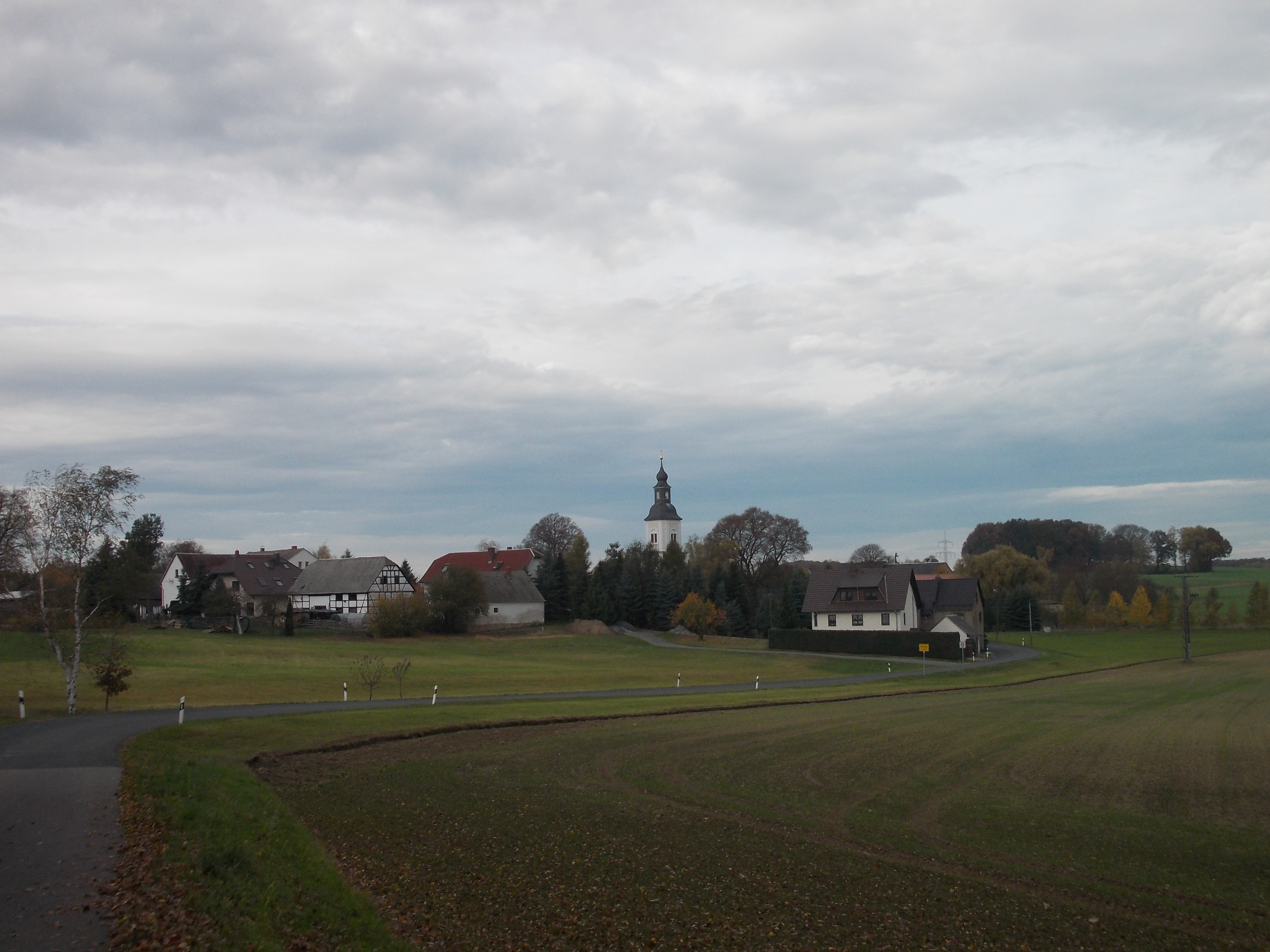 View of Nauenhain (Geithain, Leipzig district, Saxony)